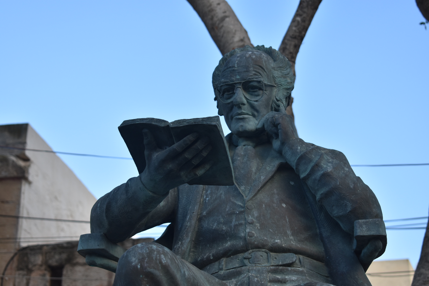 Street furniture in Dingli